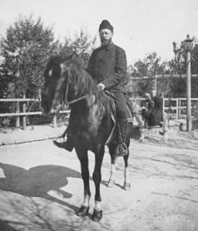 Hagelin on the horseback on his way to inspect the oil fields around Baku. Villa Petrolea, around 1896-1897